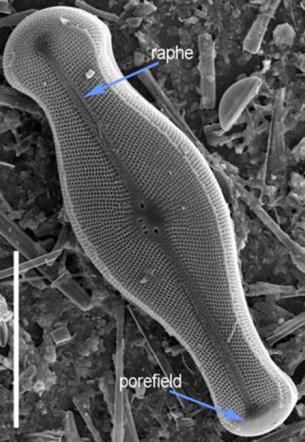 Didymosphenia geminata cell biology. "Scanning electron micrograph of the silica cell wall of D. geminata. The raphe is composed of the two slits that run along the apical axis of the cell. The cell secretes mucopolysaccarides through the raphe in order to move on surfaces. At the base of the cell is the porefield, through which the stalk is secreted. Scale bar equal to 50 μm (Image by Sarah Spaulding, US Geological Survey)." From EPA whitepaper